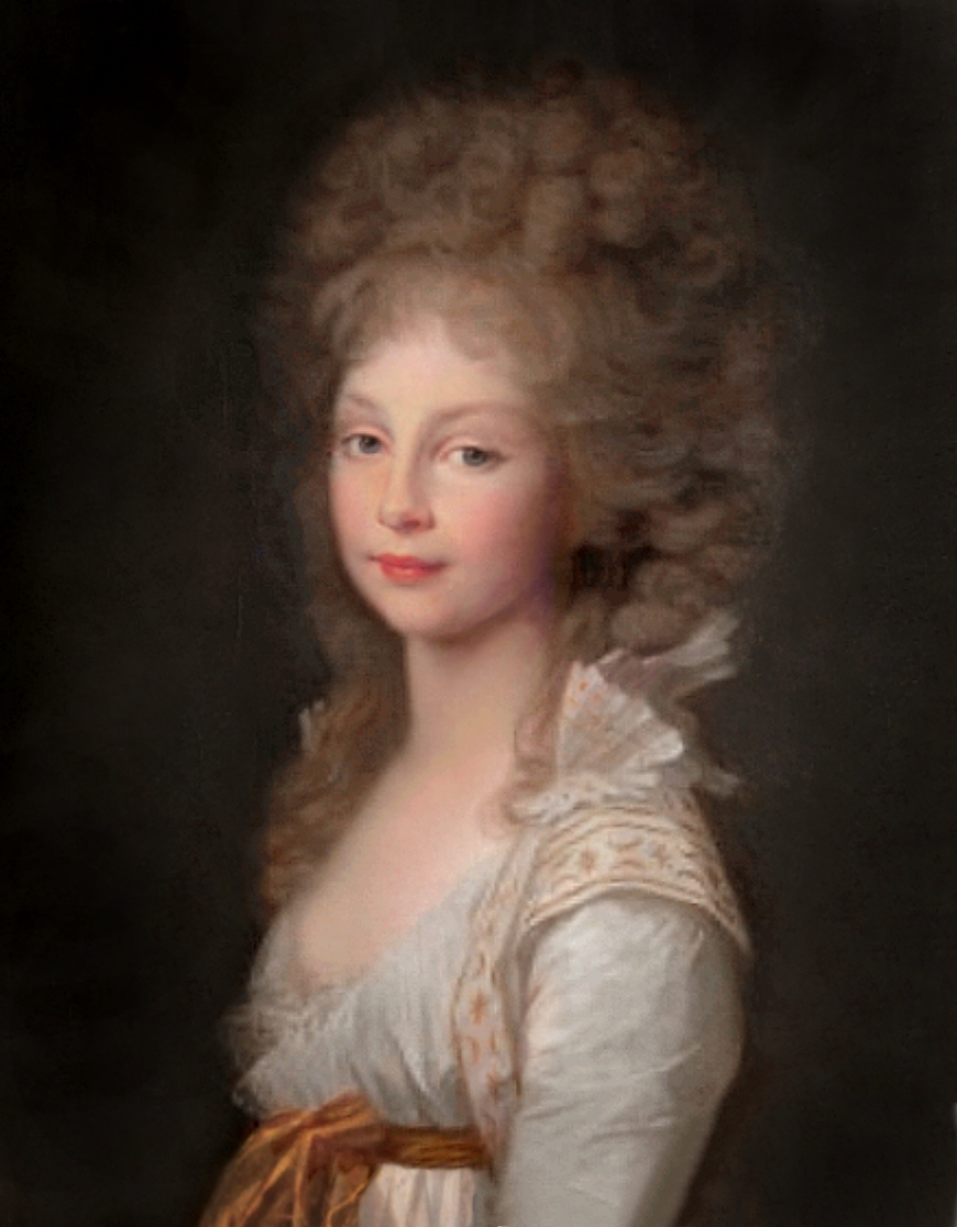 Portrait of Frederica of Mecklenburg-Strelitz (1778-1841), later Queen of Hanover